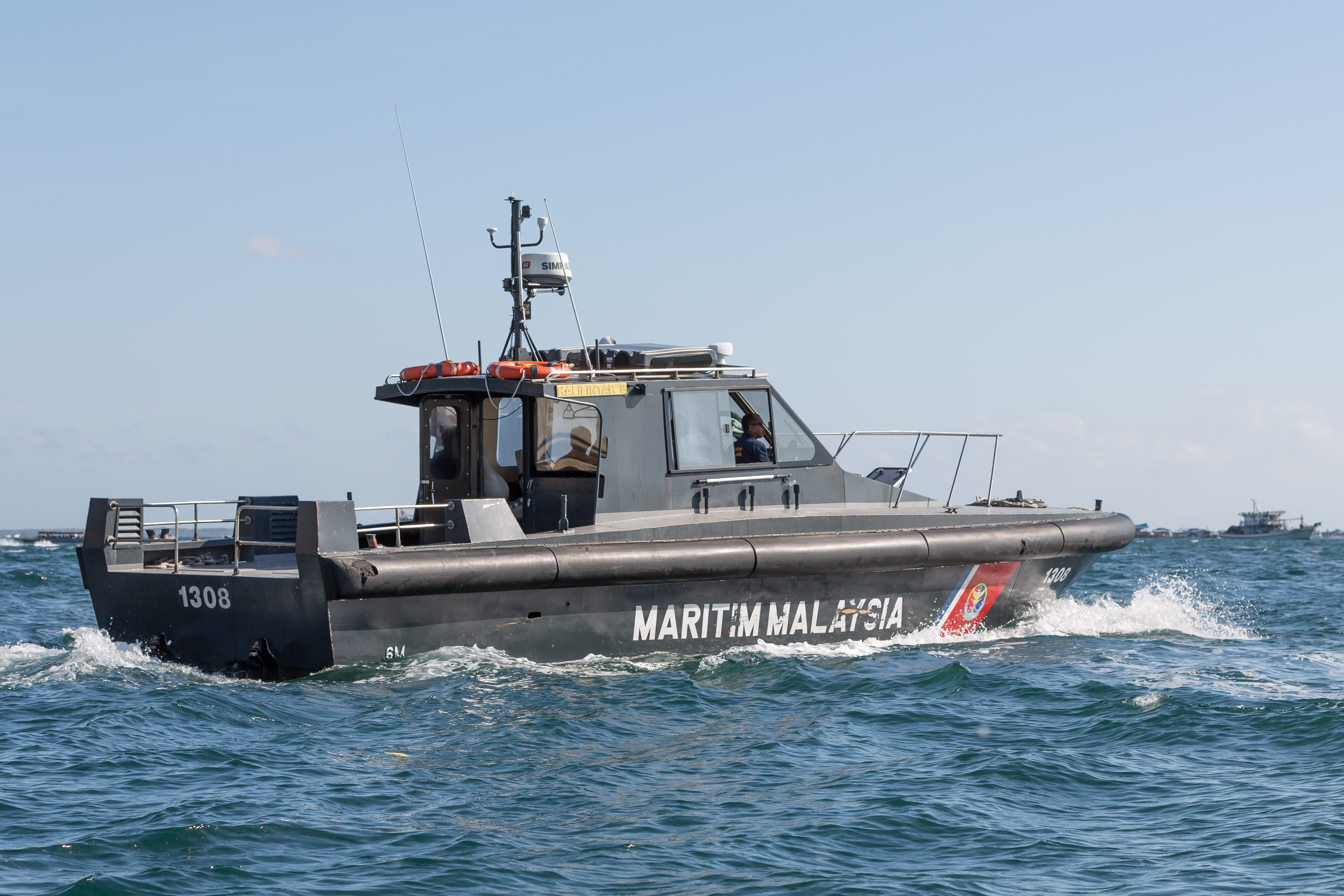 Semporna, Sabah: Ship Halilintar 8 of Malaysian Maritime Enforcement Agency during the Regatta Lepa event 2015)